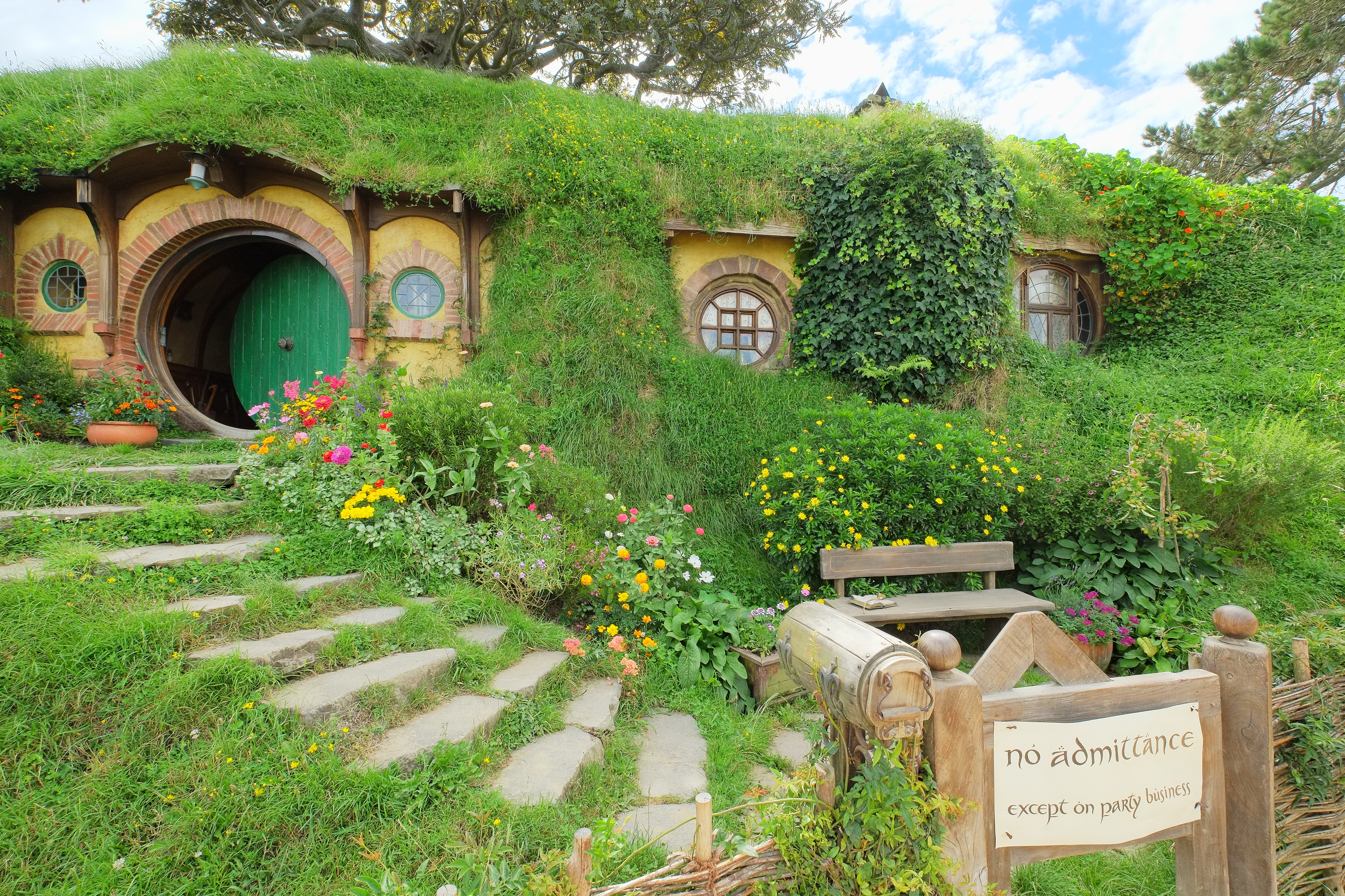 Fully restored Baggins residence 'Bag End' with 'no admittance except on party business'-sign; all parts of the Hobbiton location are maintained to movie set standards, supported by guided tours